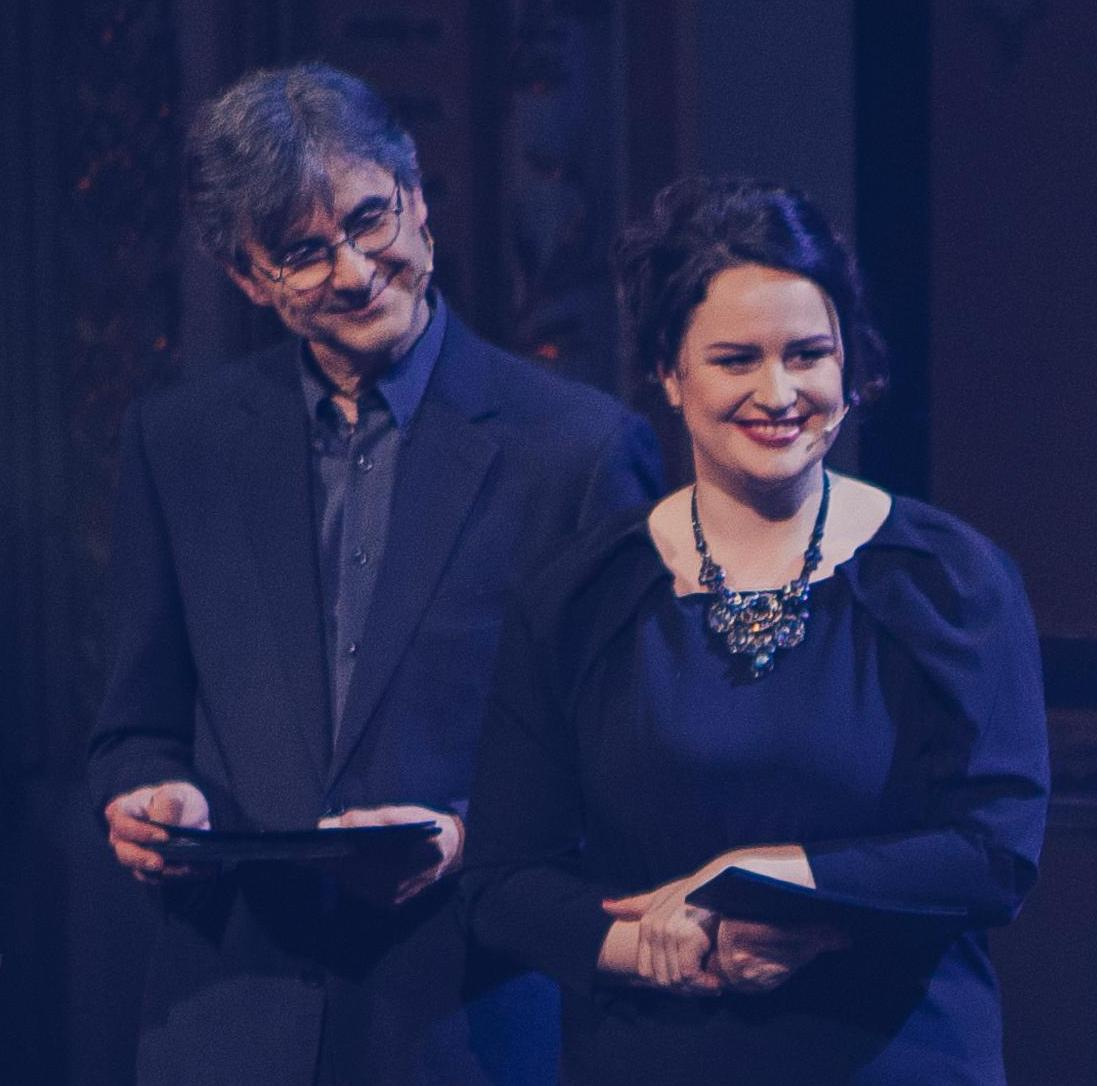 Boris Farkaš a Petra Polnišová